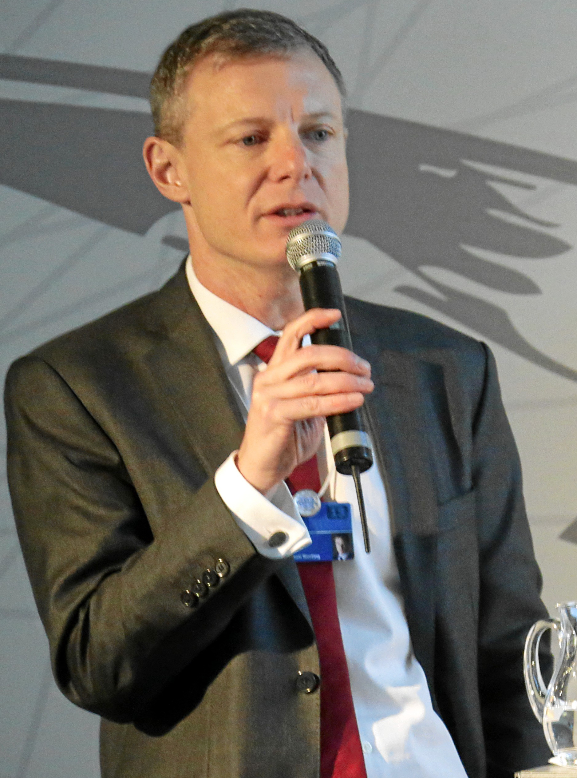 DAVOS/SWITZERLAND, 26JAN13 - Adrian Monck, Managing Director, Head of Communications and Media, World Economic Forum moderates the Session 'Global Risks 2013: Digital Wildfires in a Hyperconnected World' at the Annual Meeting 2013 of the World Economic Forum in Davos, Switzerland, January 26, 2013.. . Copyright by World Economic Forum. . Remy Steinegger